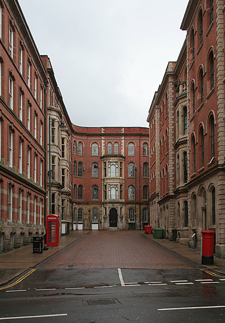 Broadway from the east This is probably the most dramatic vista in Nottingham's Lace Market area. The buildings date from the 1850s and it was here that the machine-manufactured lace for which Nottingham is famous was worked up into finished products. The quality of the architecture reflected the fact that much of the output served the top end of the market. Buildings are now mainly occupied by small business, some still in the textile trade, with one of the major buildings now part of a secondary college.